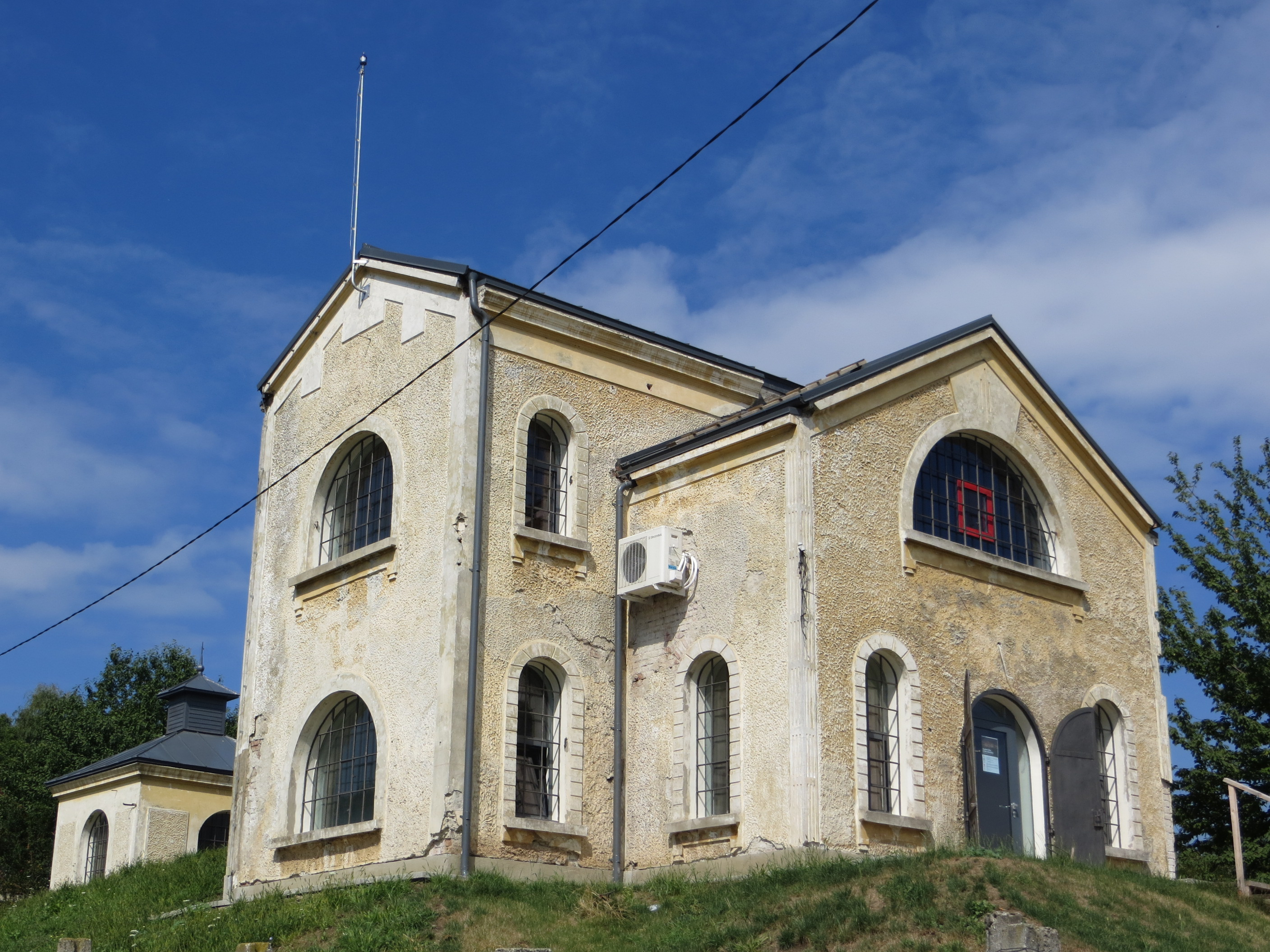 The Water Plant in Suceava.